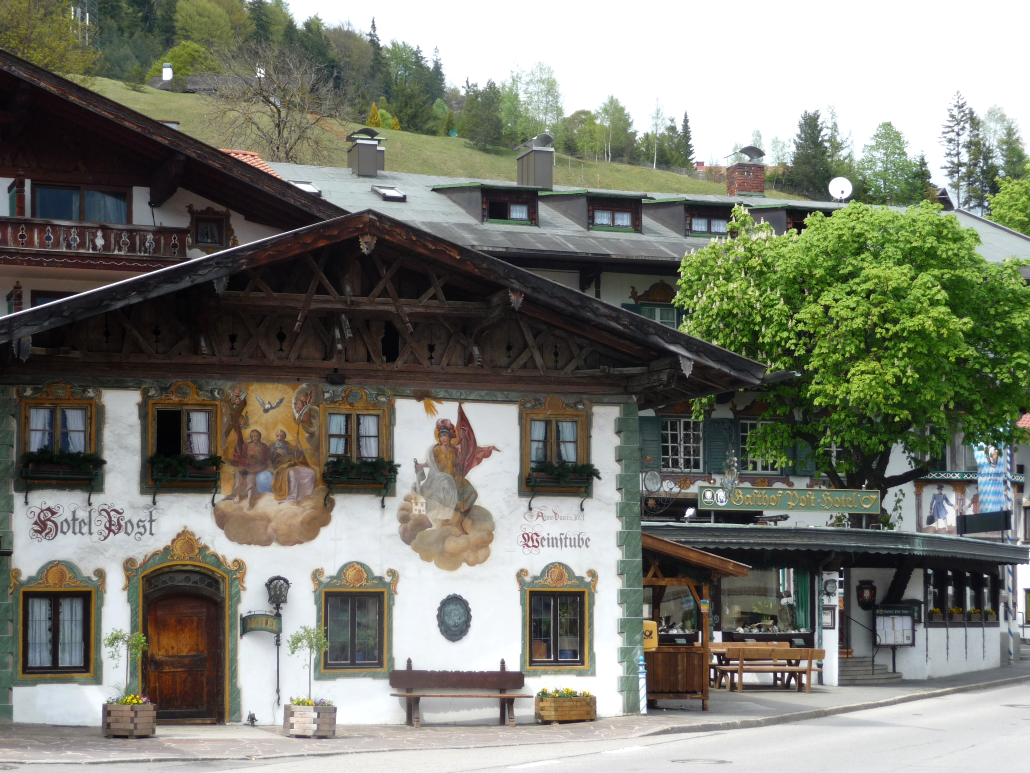 Hotel "Zur Post", Wallgau, Germany